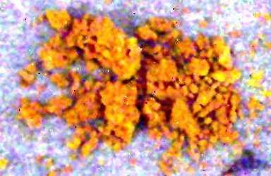 One of my lab products